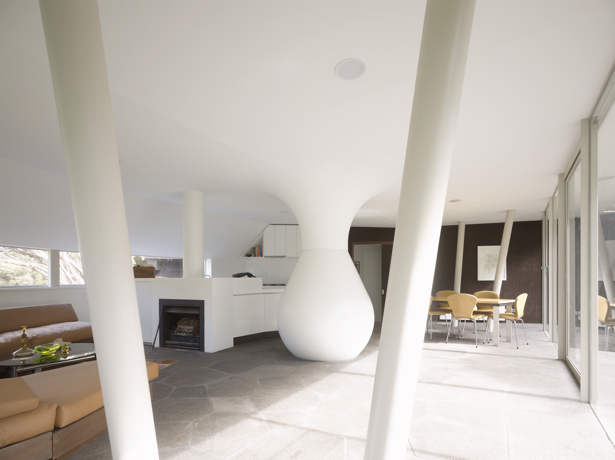 Cape Schanck House